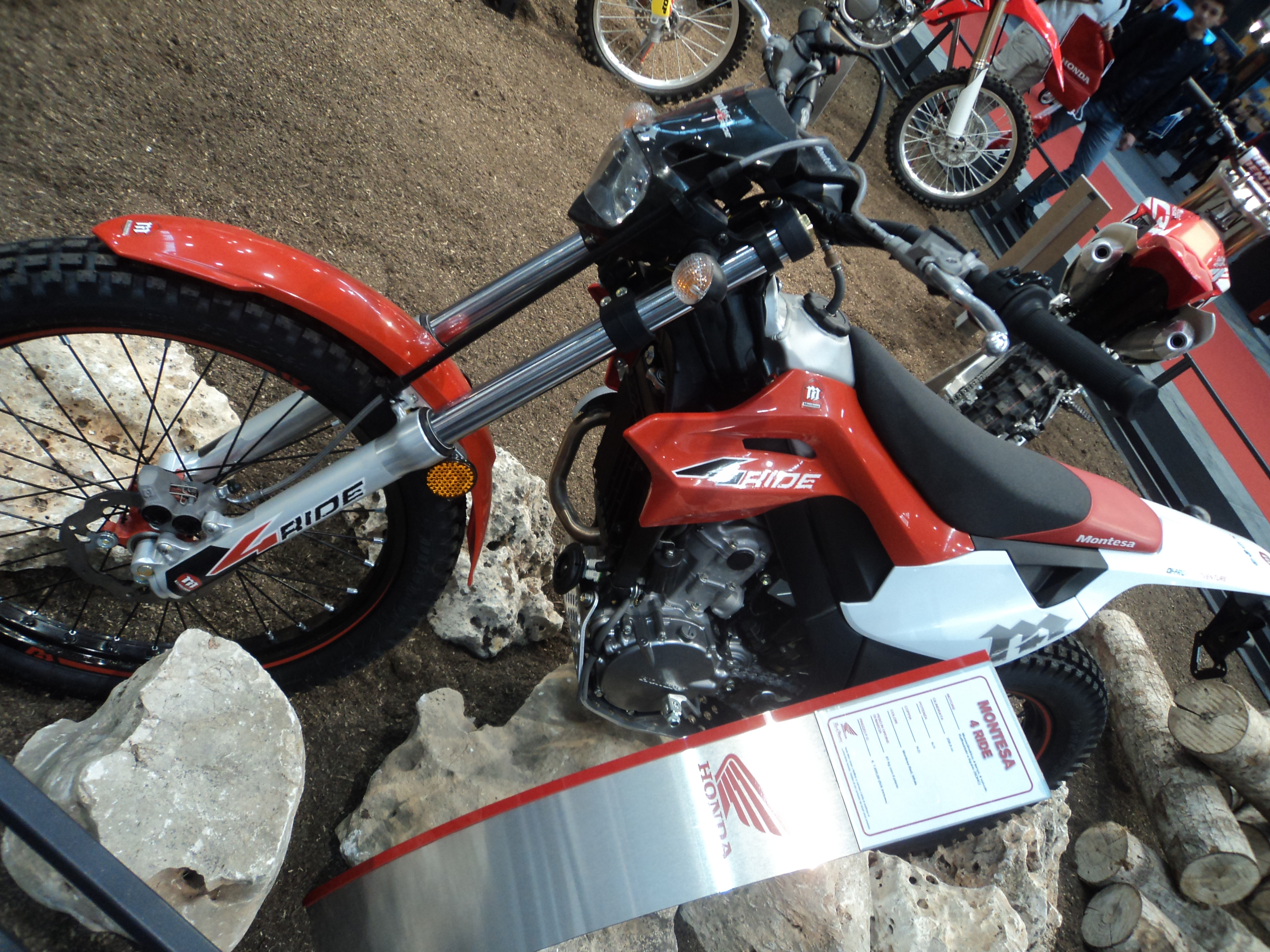 Montesa Cota 4Ride @Motodays 2017